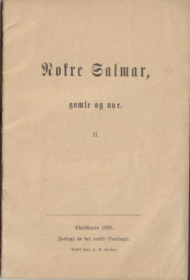 Title page of a norwegian psalm book by Elias Blix